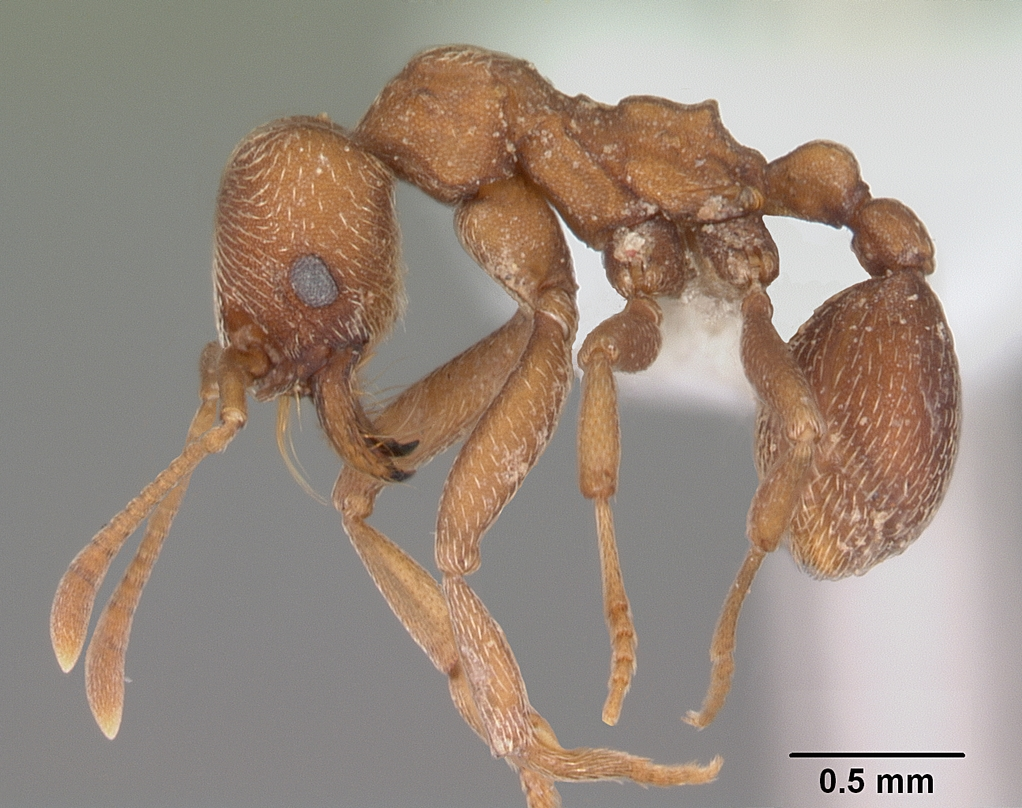 Profile view of ant Kalathomyrmex emeryi specimen casent0010816.